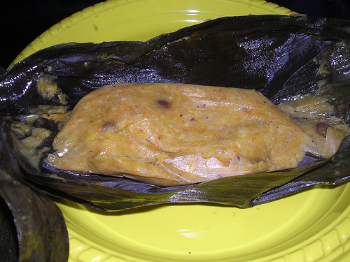 A conkie is a corn-based, cookie-like delicacy popular in the West Indies. The ingredients include corn flour, coconut, sweet potato, and pumpkin, and the dough is baked by steaming in banana leaves.